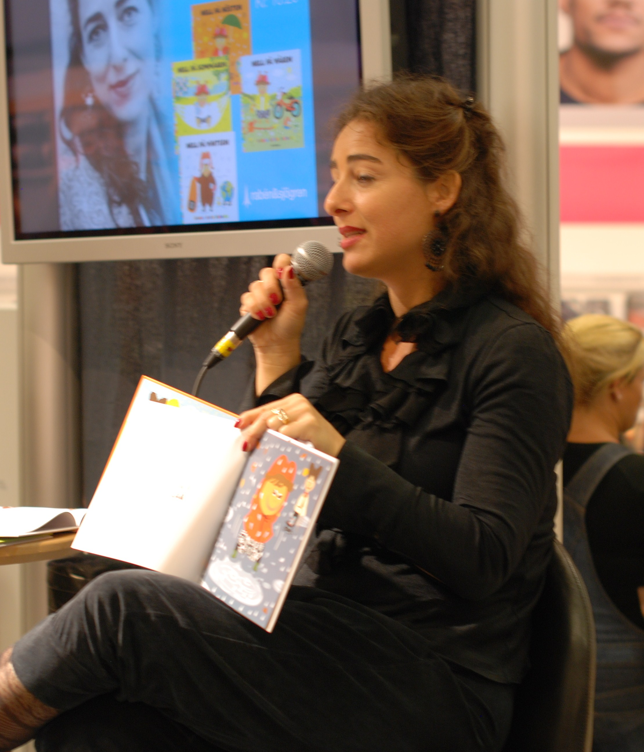 Joanna Rubin Dranger, Swedish author, at Göteborg Book Fair 2010